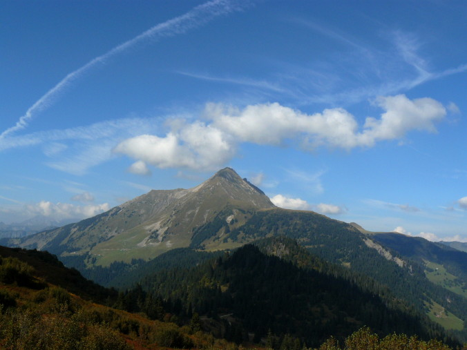 The Mont de Grange, as seen from the pass of Bassachaux.